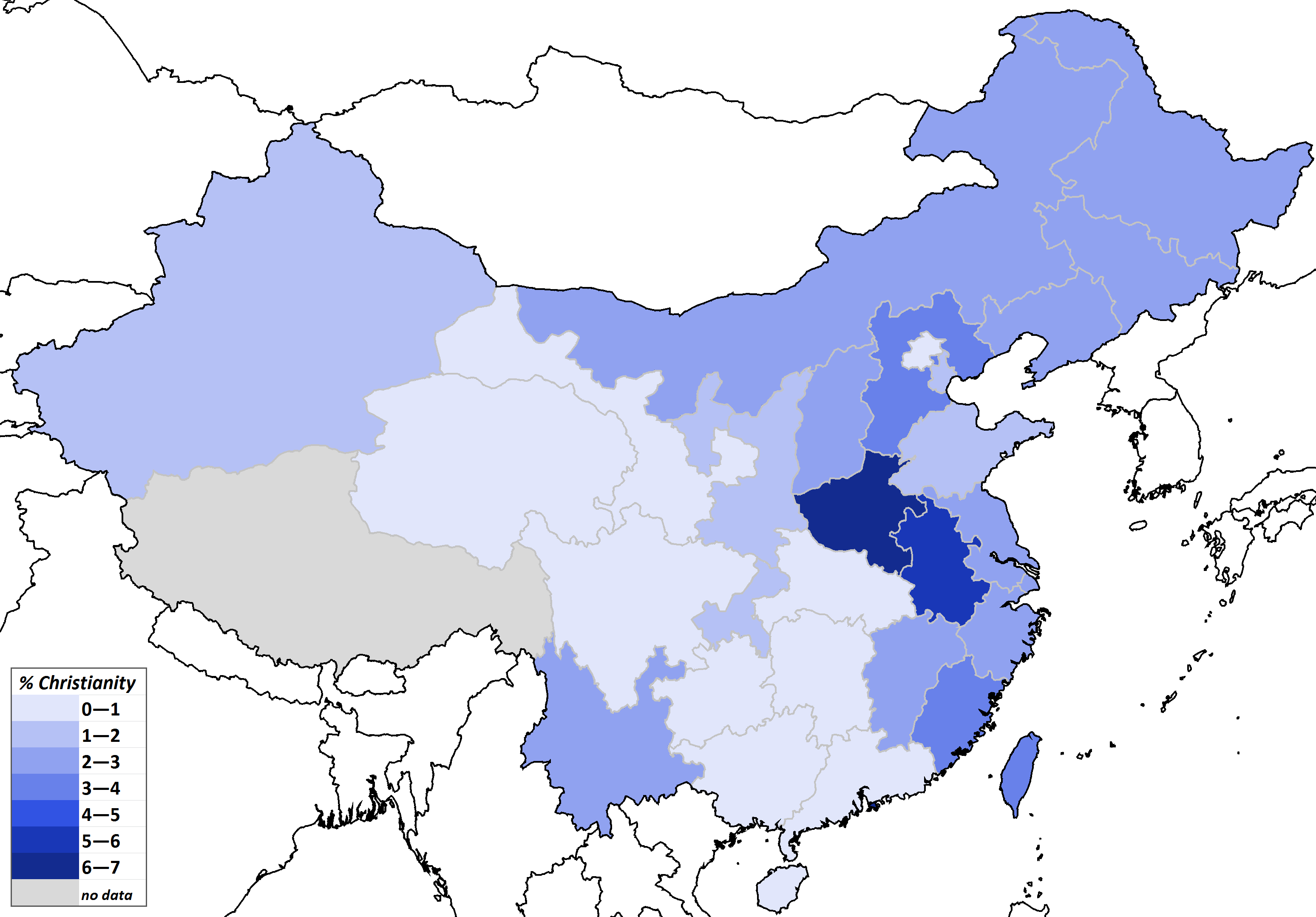 Distribution of Christians in China in the 2010s, by province, according to the Chinese General Social Survey 2009 and the China Family Panel Studies survey of 2012 for some provinces.